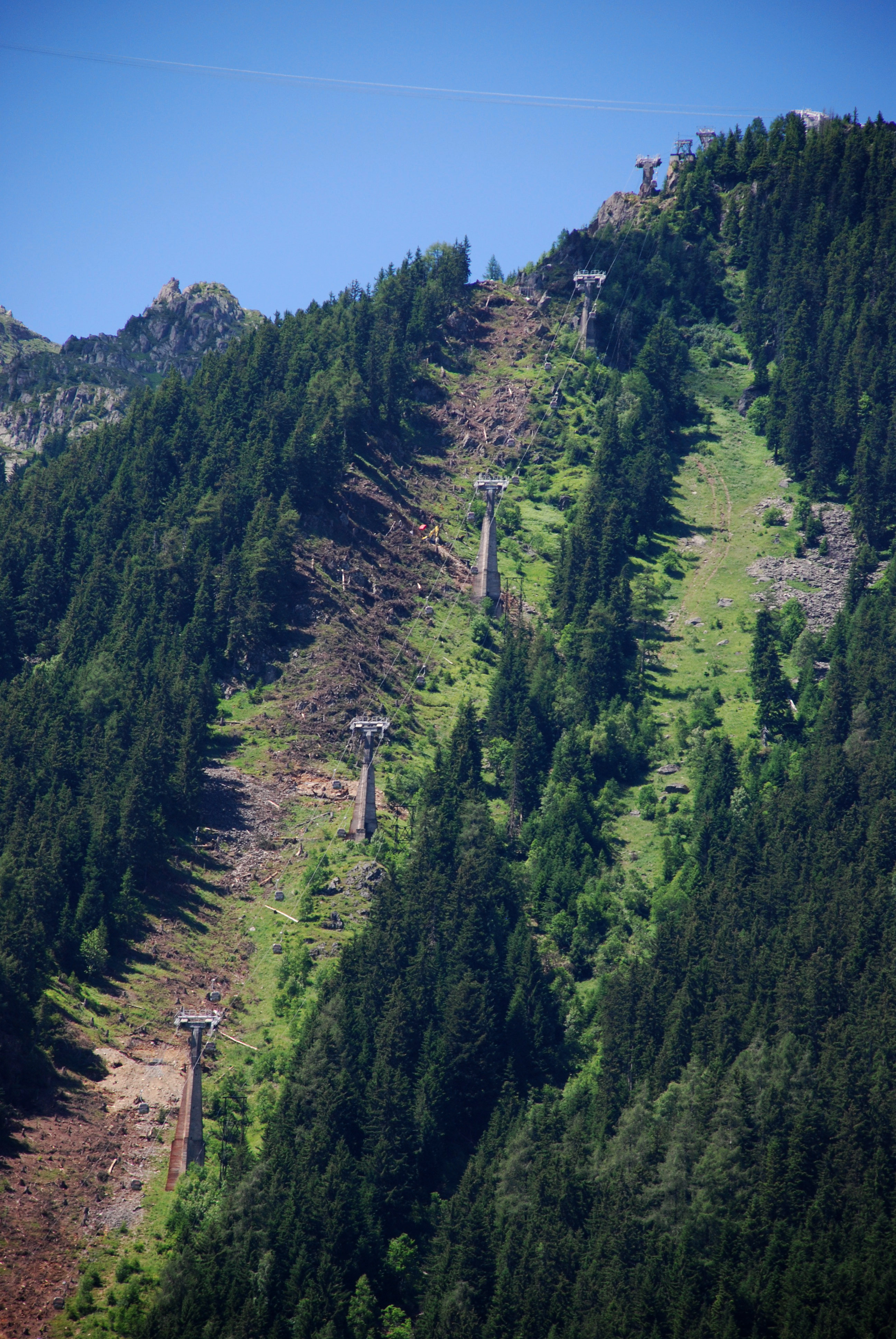 Old cableway line to Planpraz, Chamonix Valley.